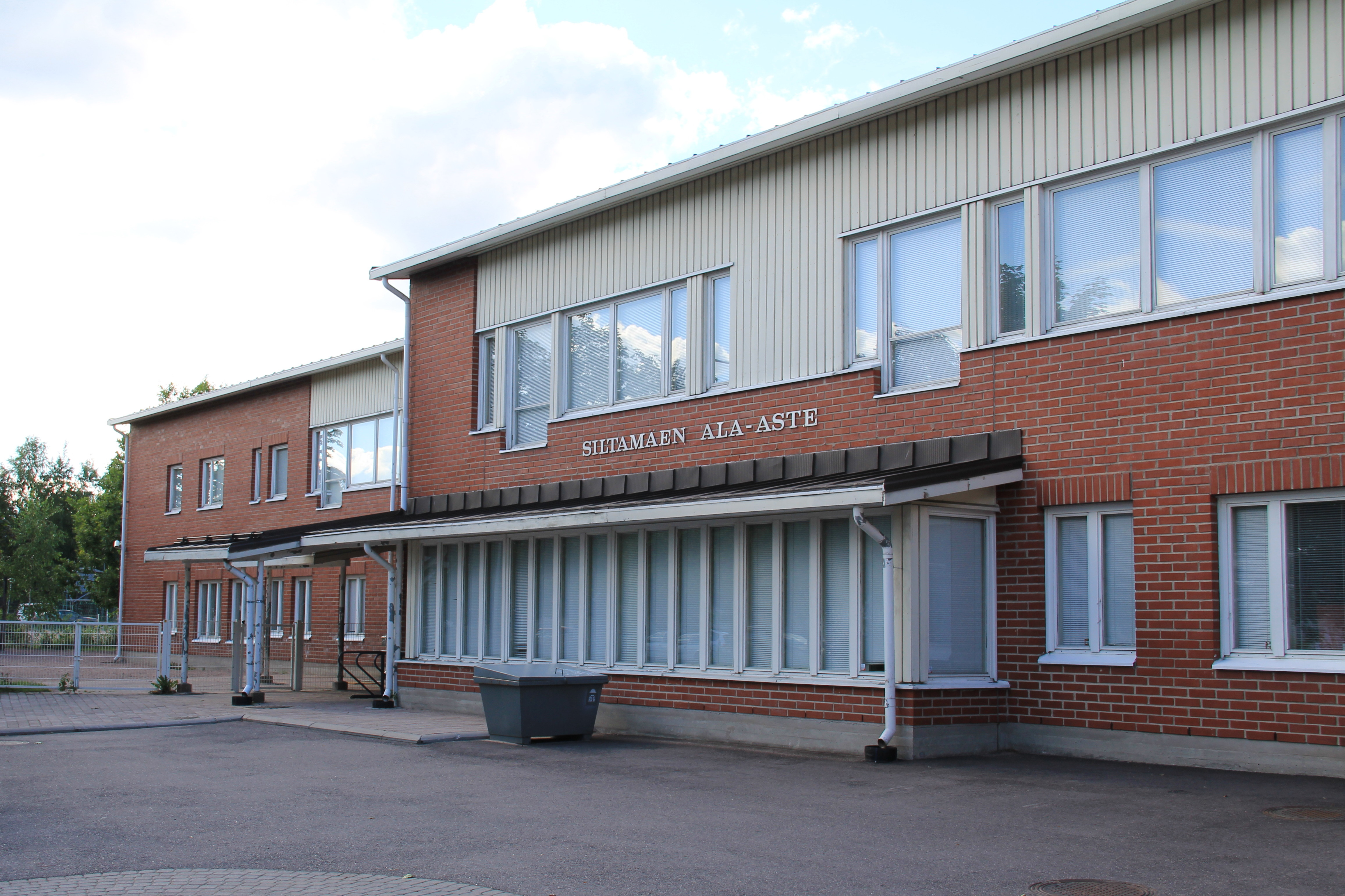 Siltamäki school, Siltamäki, Helsinki, Finland.